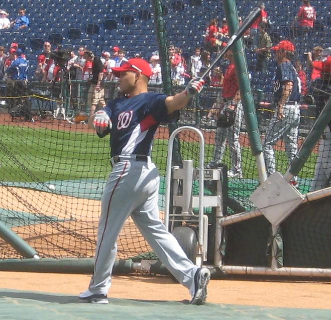 Ivan Rodriguez during batting practice prior to Nationals @ Phillies game on 2010 04 12. The game was the Phillies Home Opener